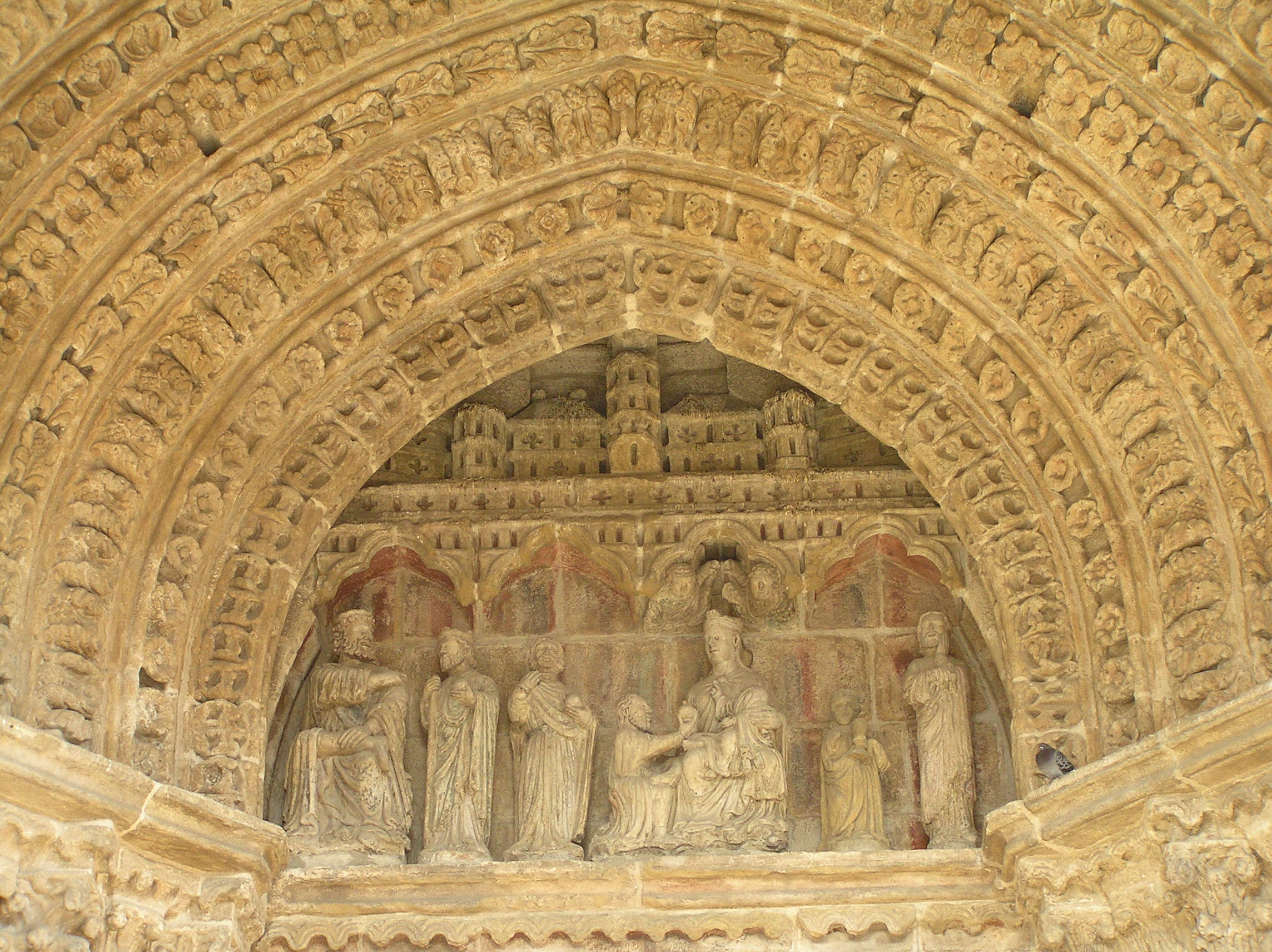 Tui - cathedral's tympanum. Tympanon portalu katedry w Tui.